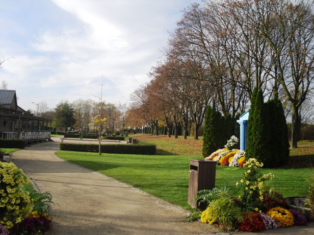 Coulée Verte Park in Paray-Vieille-Poste